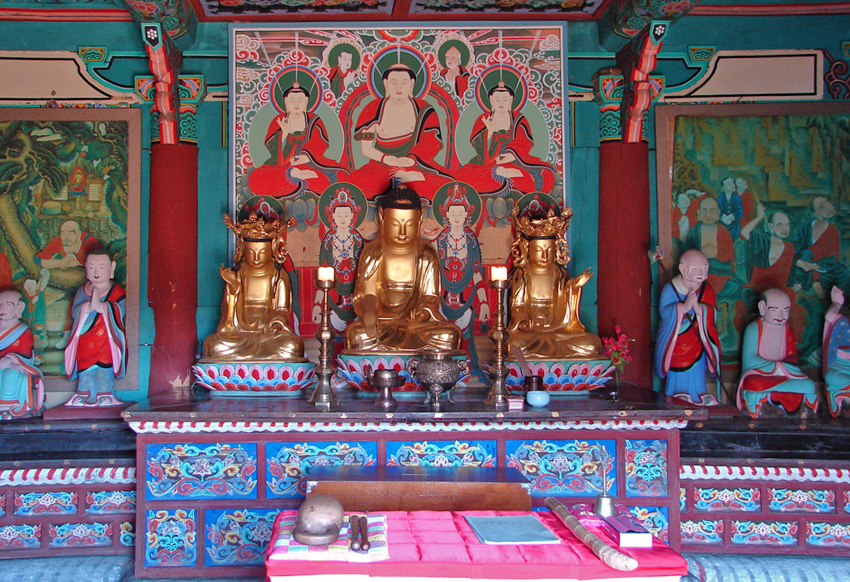 Seonam Temple, Seonamsa, is a Korean Buddhist temple located on the eastern slope at the west end of Mount Jogyesan Provincial Park, within the northern Seungjumyeon District of the city of Suncheon, Jeollanamdo Province, South Korea. The name Seonam (Heavenly Rock) is derived from the legend that a heavenly being once played the game of Go here. Legend states that in 529 CE missionary-monk Ado built a hermitage at this site on the eastern slope of Jogyesan and named it Biroam. 350 years later in 861 National Master Doseon Guksa constructed a grand temple here and named it Seonamsa.